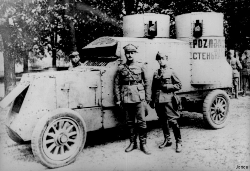 The «Austin-Putilovets», captured by the Poles near Bobruysk and named «Poznańczyk» (former Soviet: «Styenka Razin»).